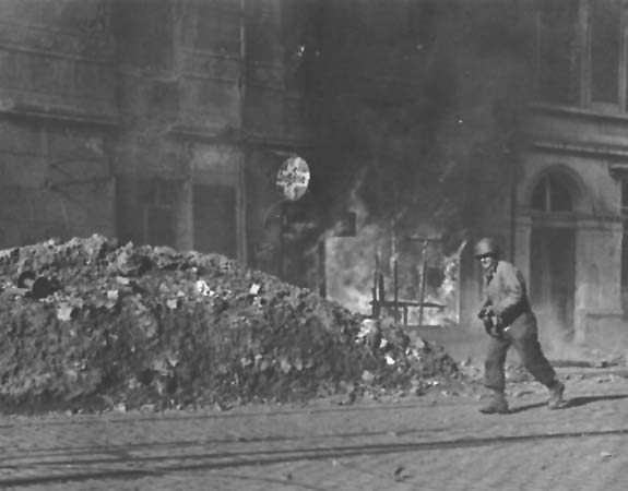 US Army rifleman in a burning Aachen.